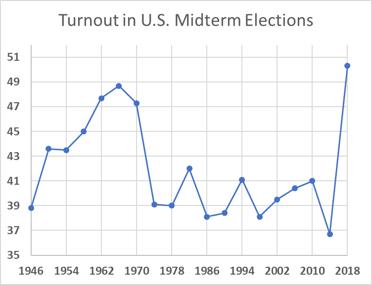 Voting eligible population turnout in U.S. midterm elections Sources: 1946-2014: National General Election VEP Turnout Rates, 1789-Present. Michael McDonald. Retrieved on 12 November 2018. 2018 (estimate): 2018 November General Election Turnout Rates. Michael McDonald. Retrieved on 7 January 2019.